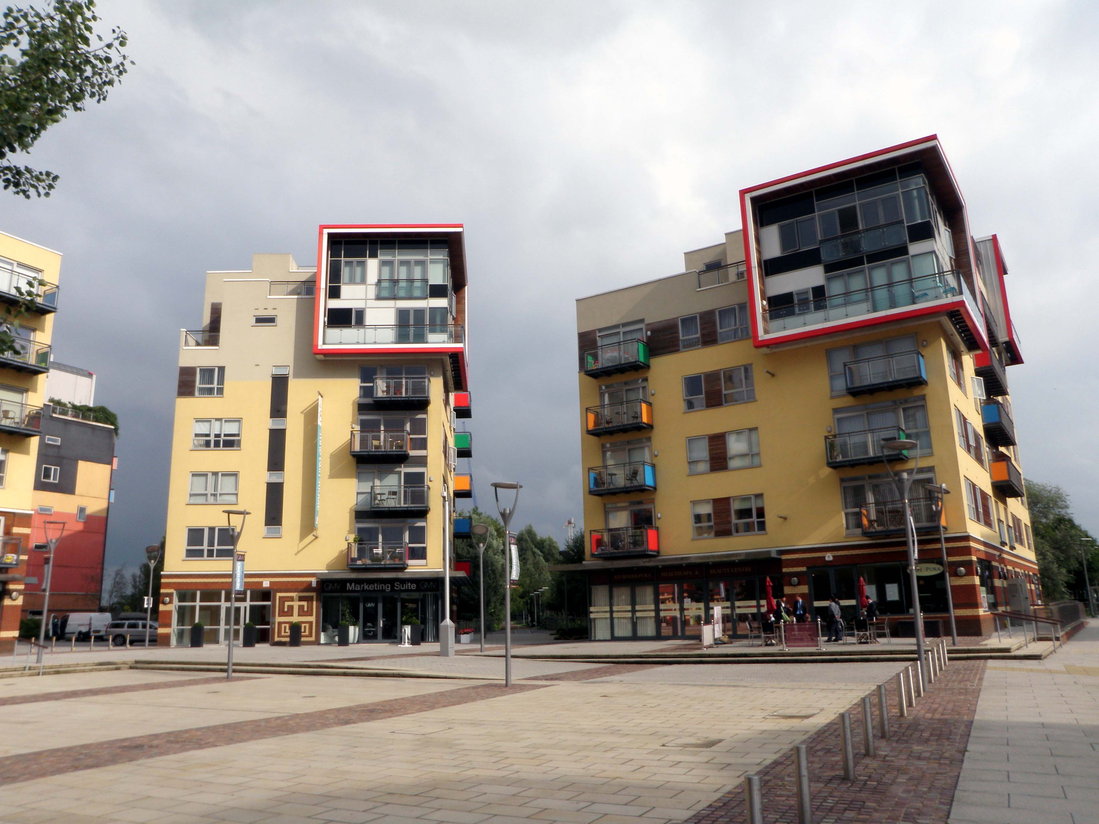 The Village Square in Greenwich Millennium Village in London, United Kingdom.